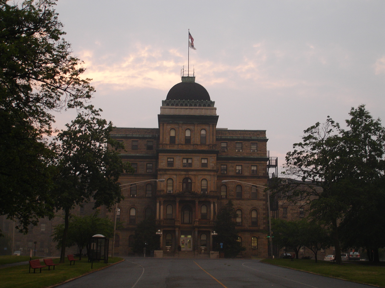 I took this photo myself in the summer of 2006